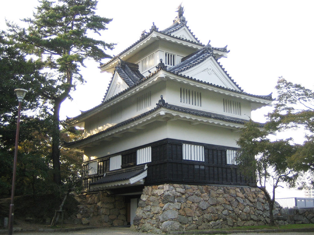 吉田城(Yoshida Castle), Aichi, Japan